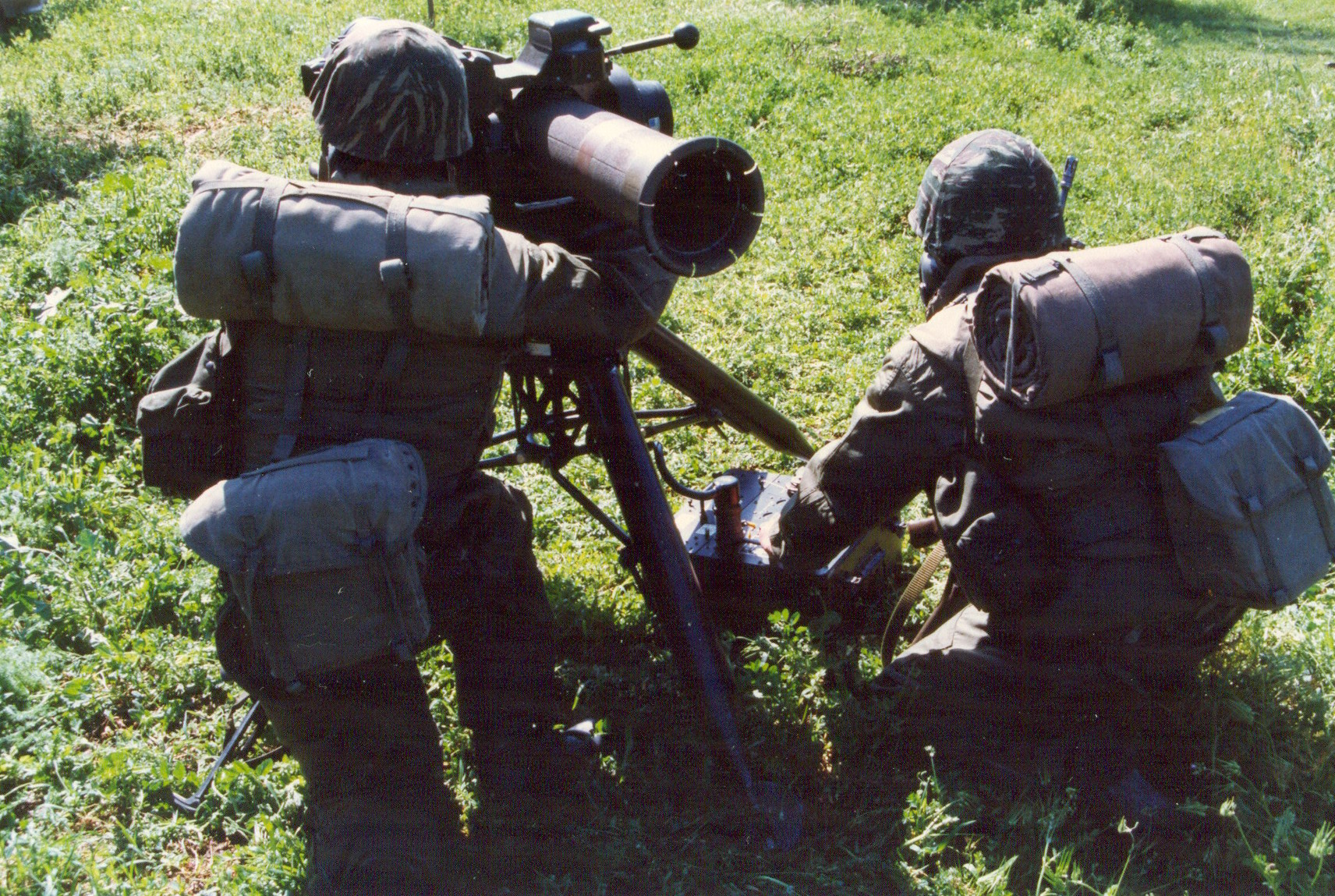 Deployed portable version BGM-71 TOW antitank missile, operated by the Greek army